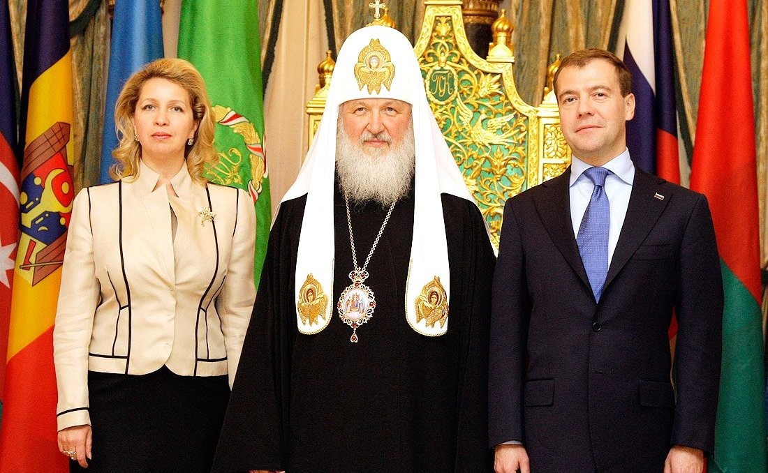 Patriarch Kirill of Moscow and all Russia with President Medvedev and his wife